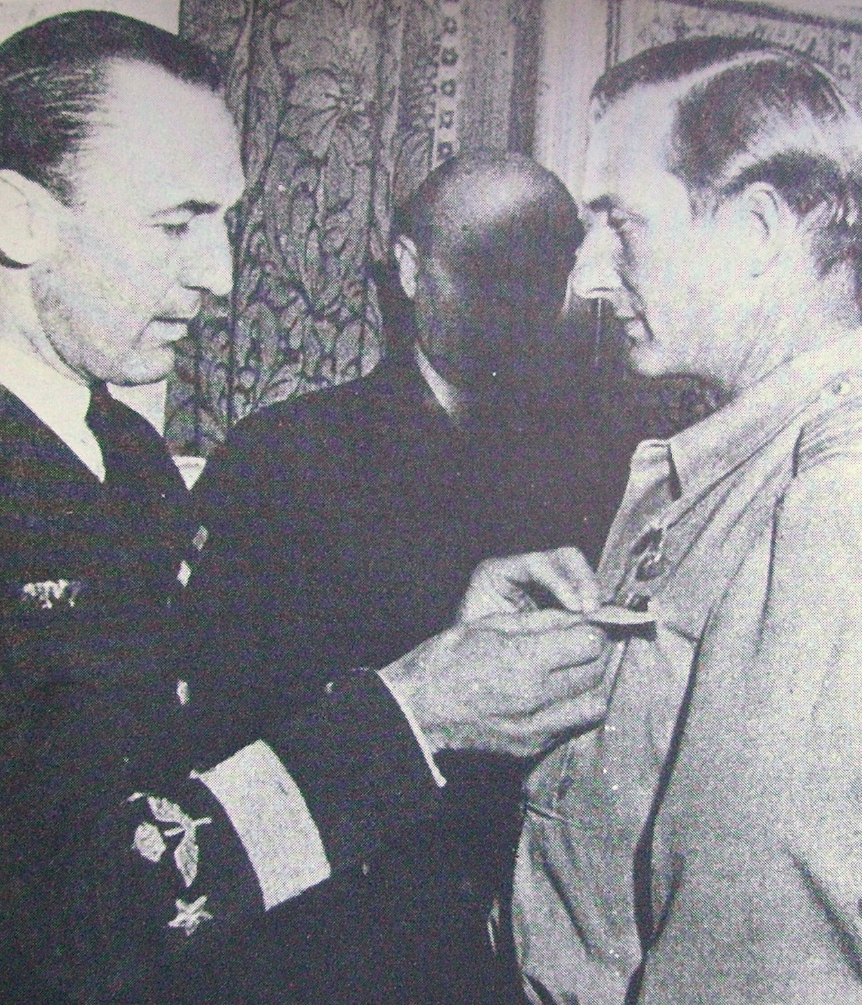 Picture of Bengt Nordenskiöld and Carl Gustaf von Rosen, Swedish military persons